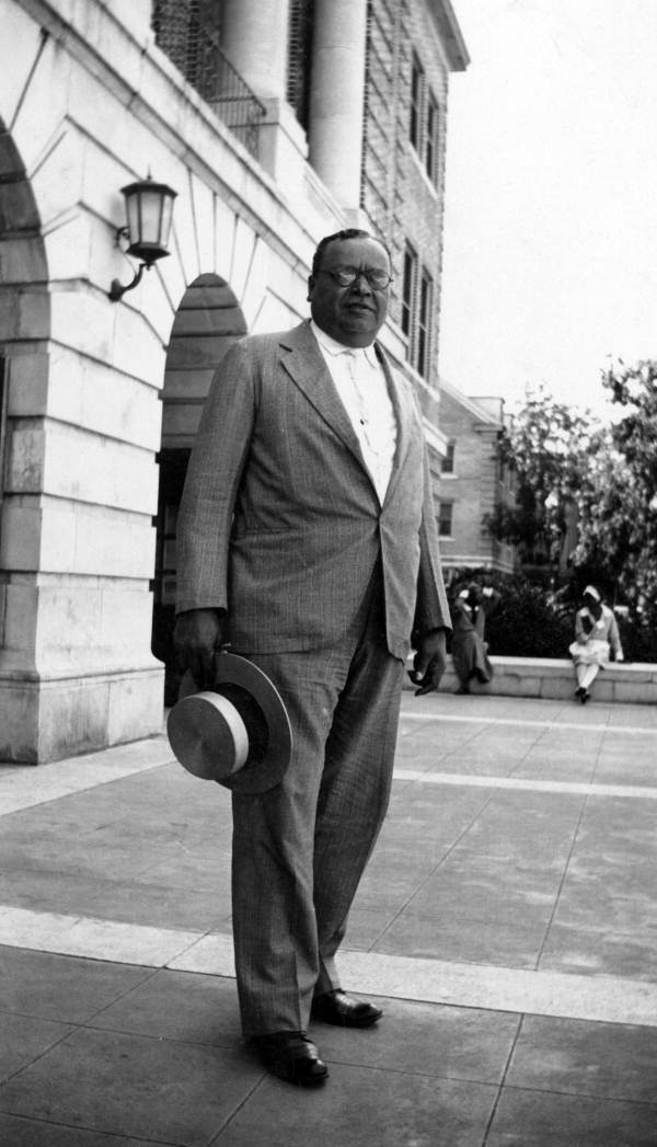 "Portrait of Florida A&M College president J.R.E. Lee - Tallahassee, Florida."